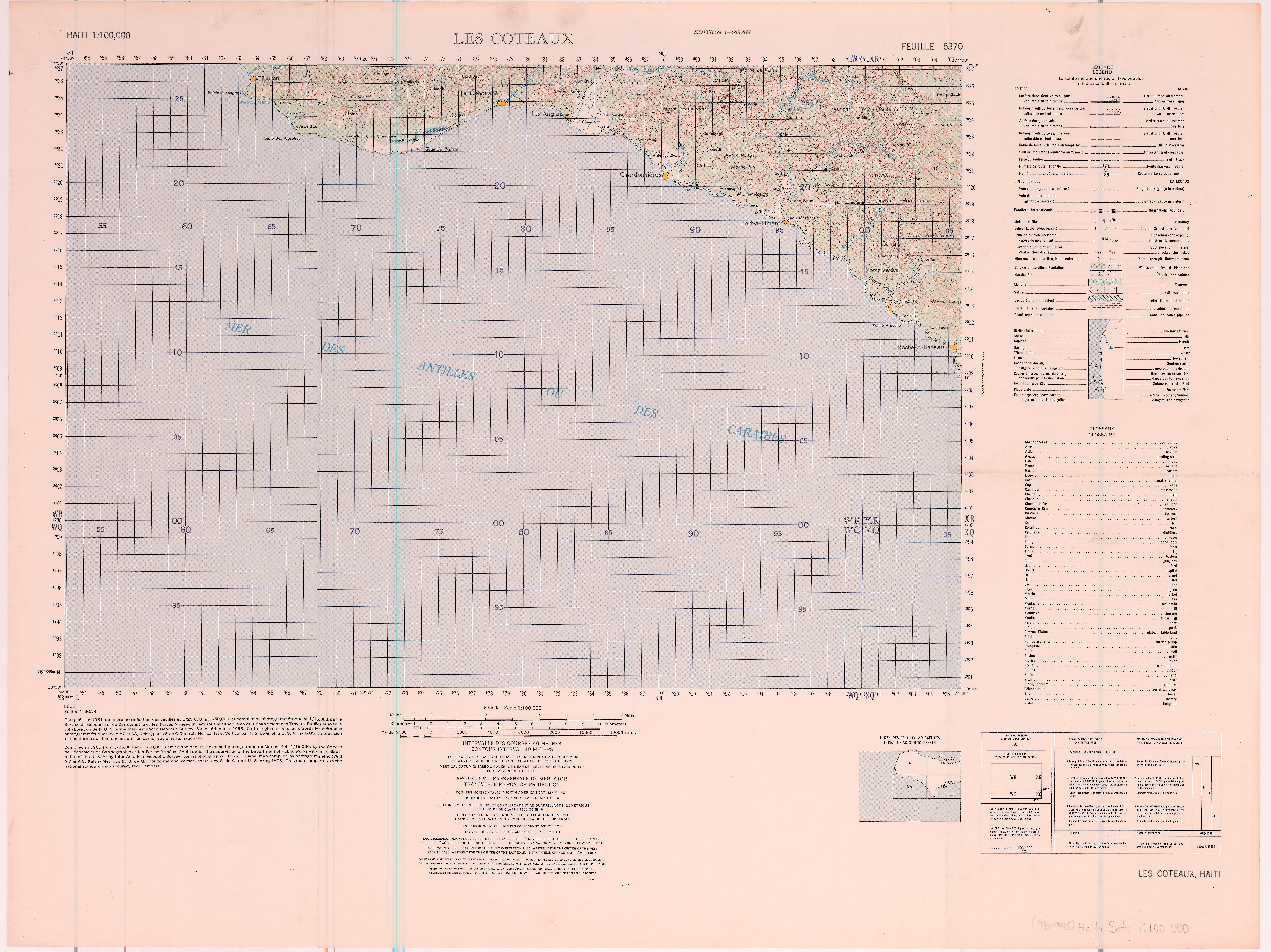 Some maps lack series statement. Some maps printed by Army Map Service, Corps of Engineers. Standard maps series designation: Series E632 Includes index to adjacent sheets, glossary, explanatory chart. Some maps have index to boundaries. Language: English and French. Relief shown by contours and spot heights.